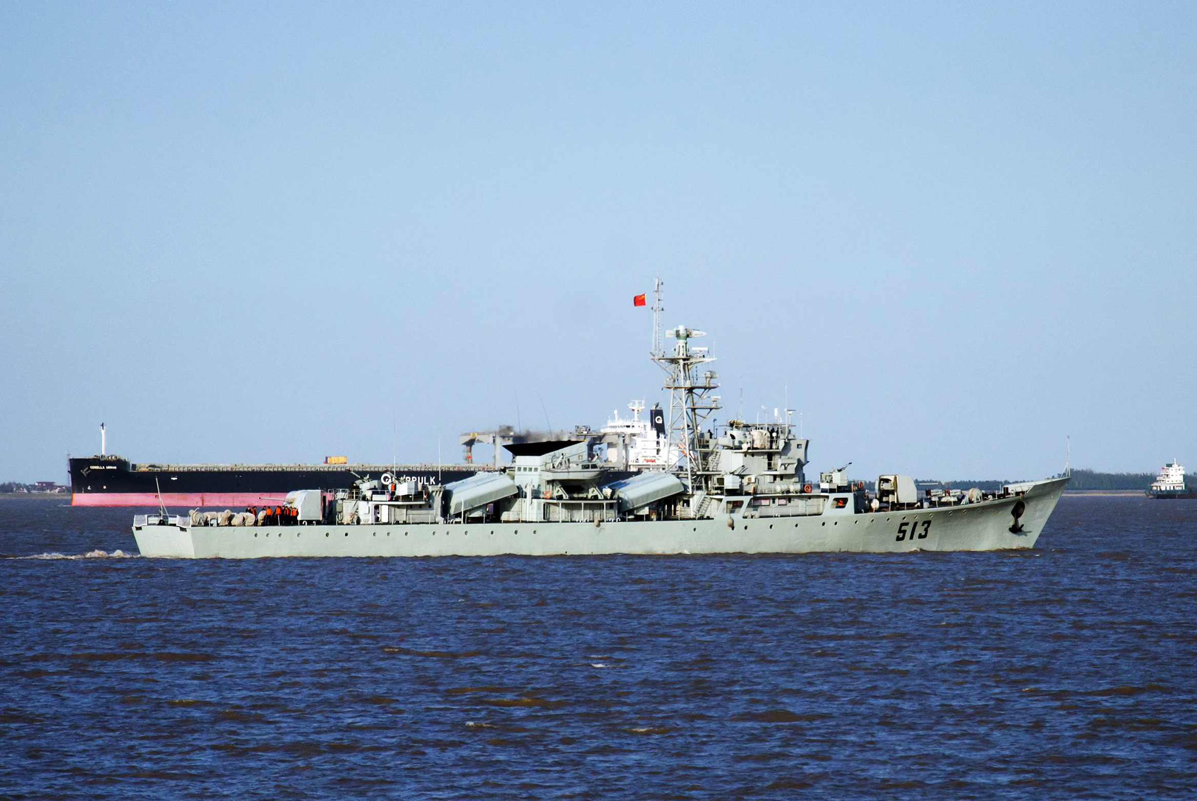 Type 053H frigate PLANS Huai'an (FFG-513).